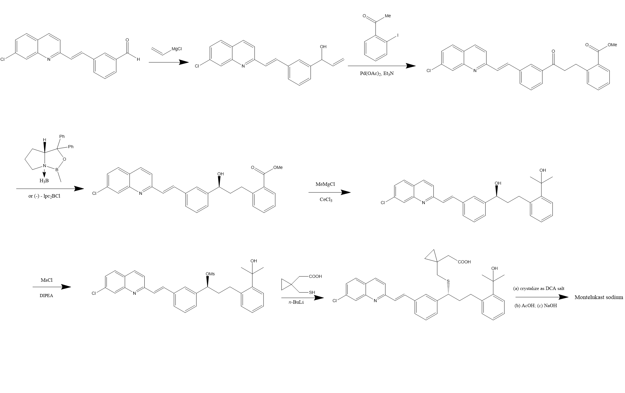 This is one way Montelukast could be Synthesized